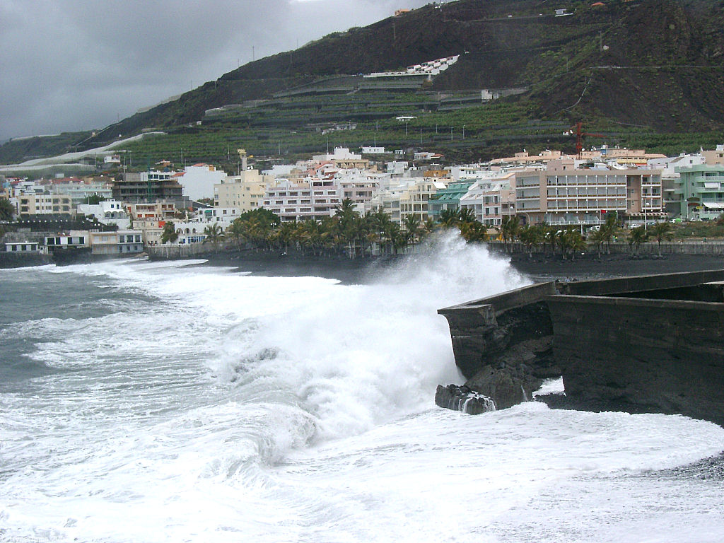 Puerto Naos in La Palma